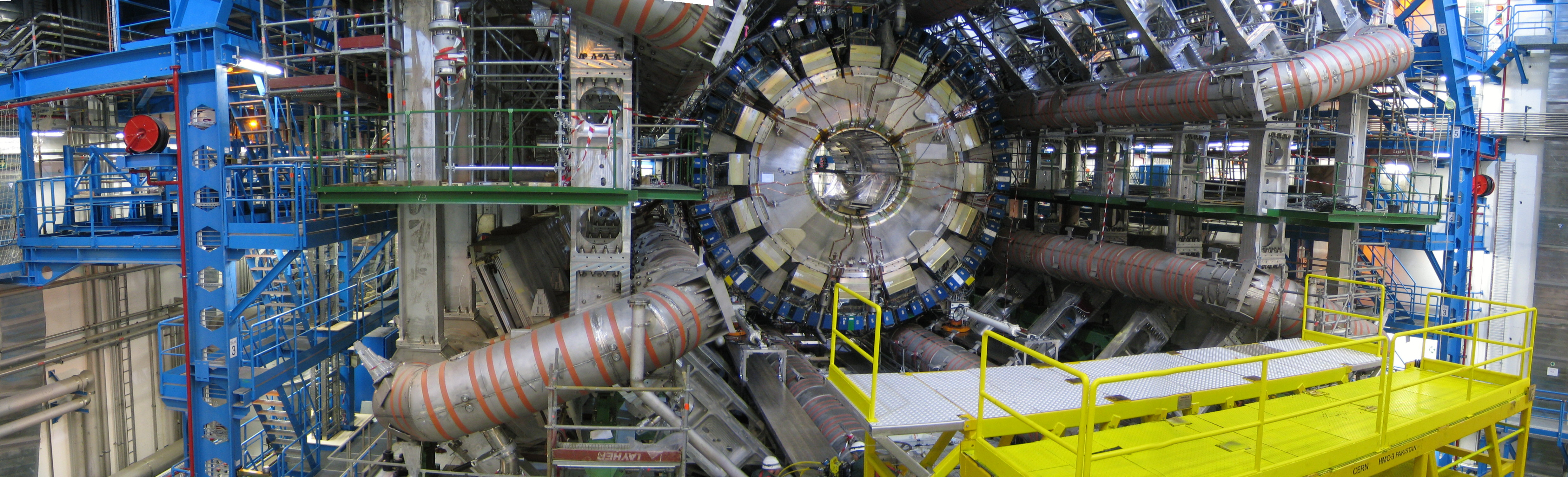 There are three pics merged to one. You can see the inner details of the detector.